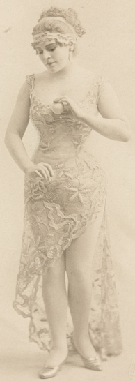 Norwegian actress Signe Heide Steen, written on the photo: "Signe Heide Steen (sign.), den 3/3 1913", so this was signed on March 3, 1913. The photo is probably from 1908 to 1910, since Hilfing left the Rude collaboration around 1910.